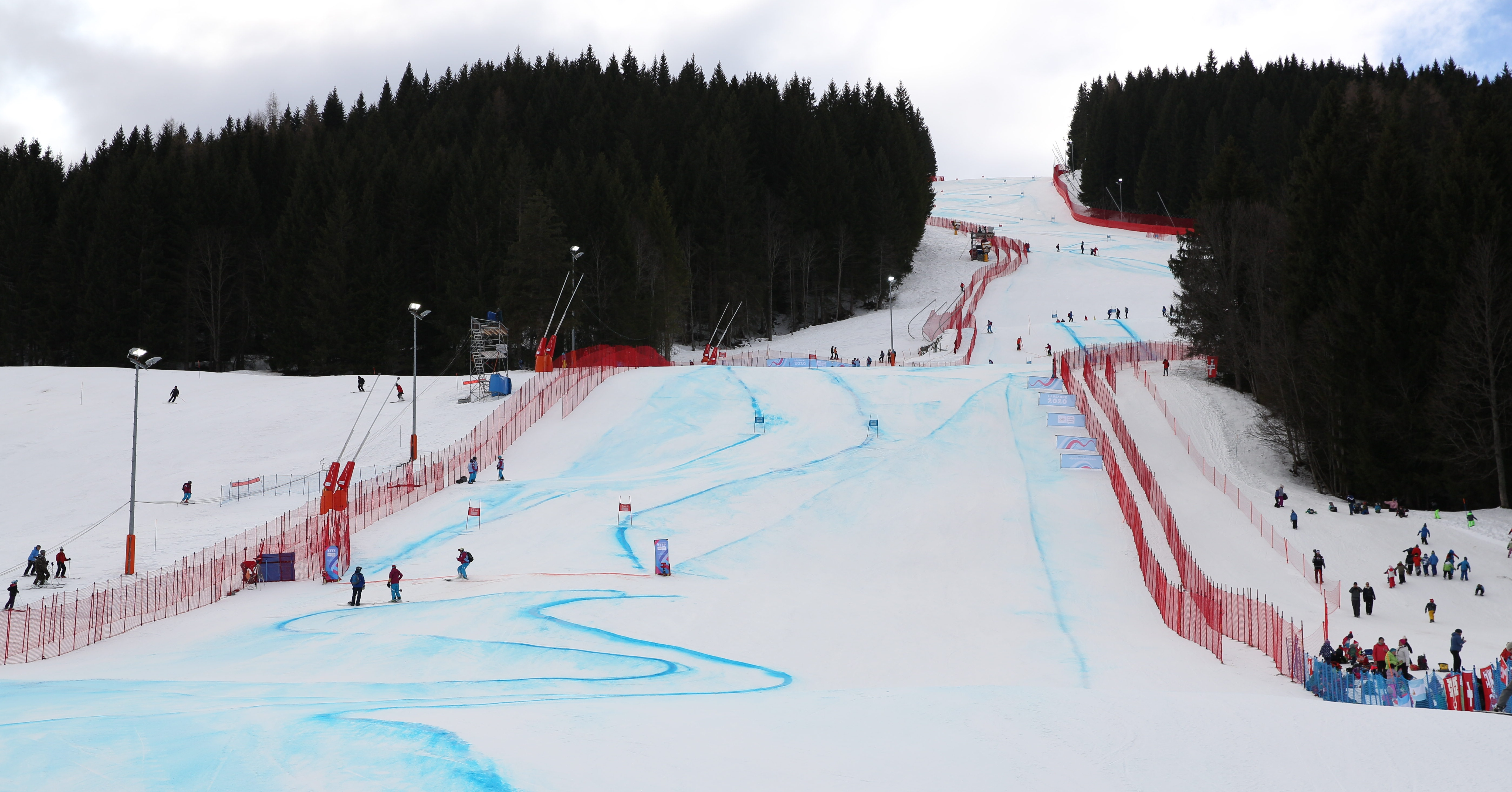 Women's Super G at the 2020 Winter Youth Olympics in Lausanne